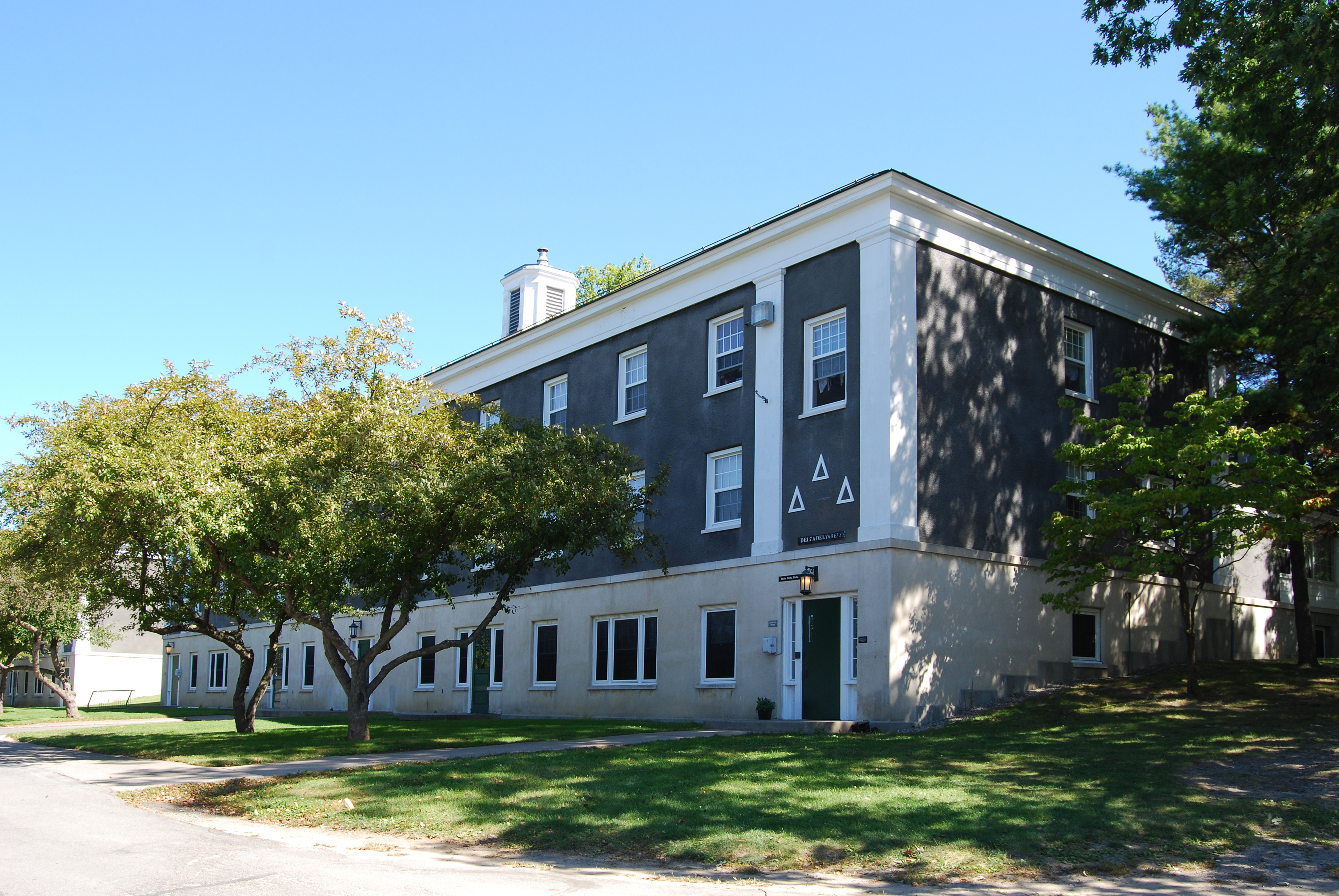 Potter House, home to Chi Psi and Delta Delta Delta, on the campus of Union College in Schenectady, New York, United States